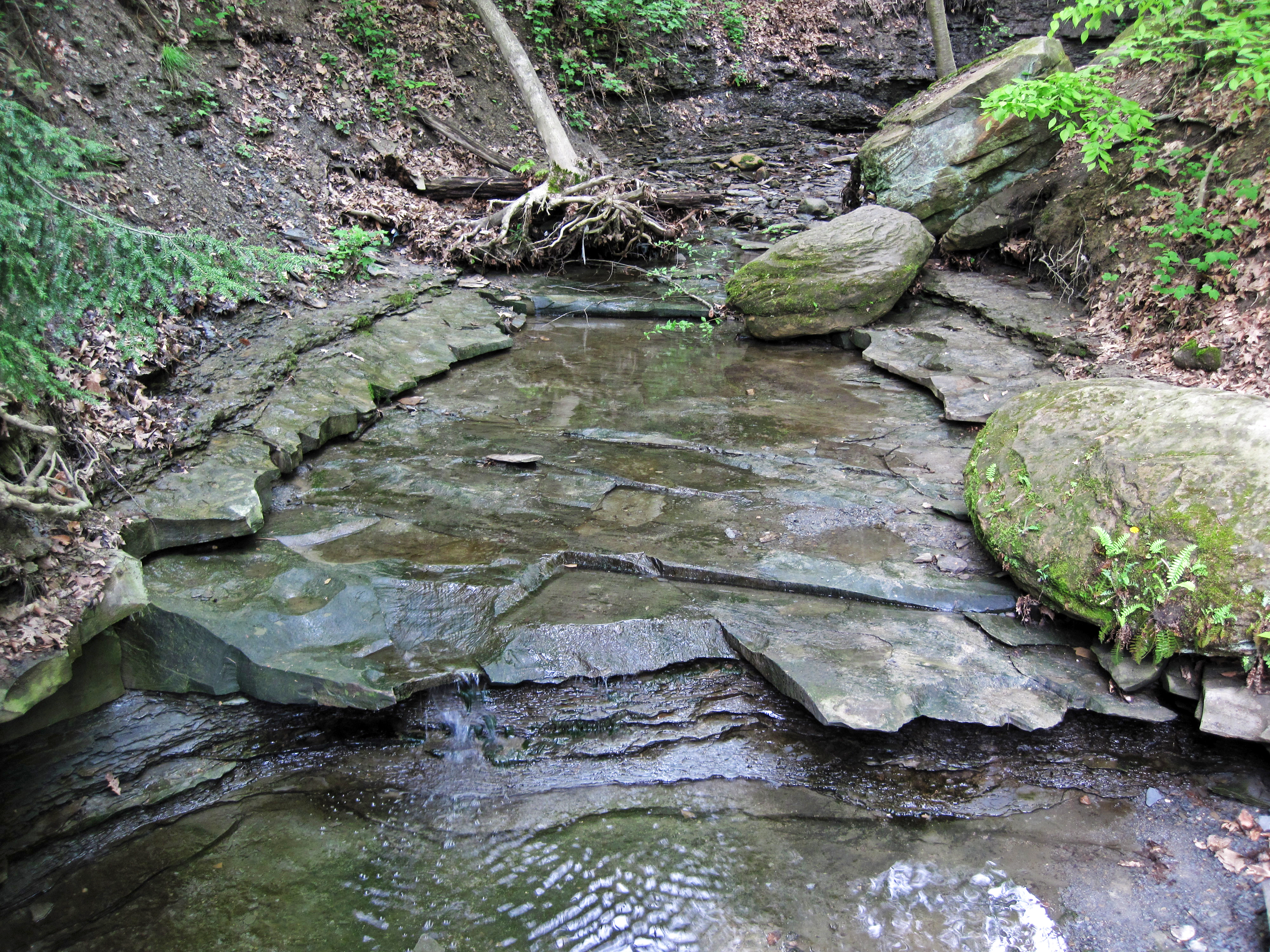 Sandstones in the Mississippian of Ohio, USA. This sandstone outcrop is in a gully in Cuyahoga Gorge, northeastern Ohio. It consists of a succession of fine- to very fine-grained sandstones. What appeared to be hummocky cross-stratification was seen just downstream from here. This is the Sharpsville Sandstone, one of many members in the Lower Mississipian Cuyahoga Formation, a marine siliciclastics unit. Stratigraphy: Sharpsville Sandstone Member, Cuyahoga Formation, Kinderhookian Stage, lower Lower Mississippian Locality: Cuyahoga Gorge, town of Cuyahoga Falls, northern side of the Akron urban area, central Summit County, northeastern Ohio, USA